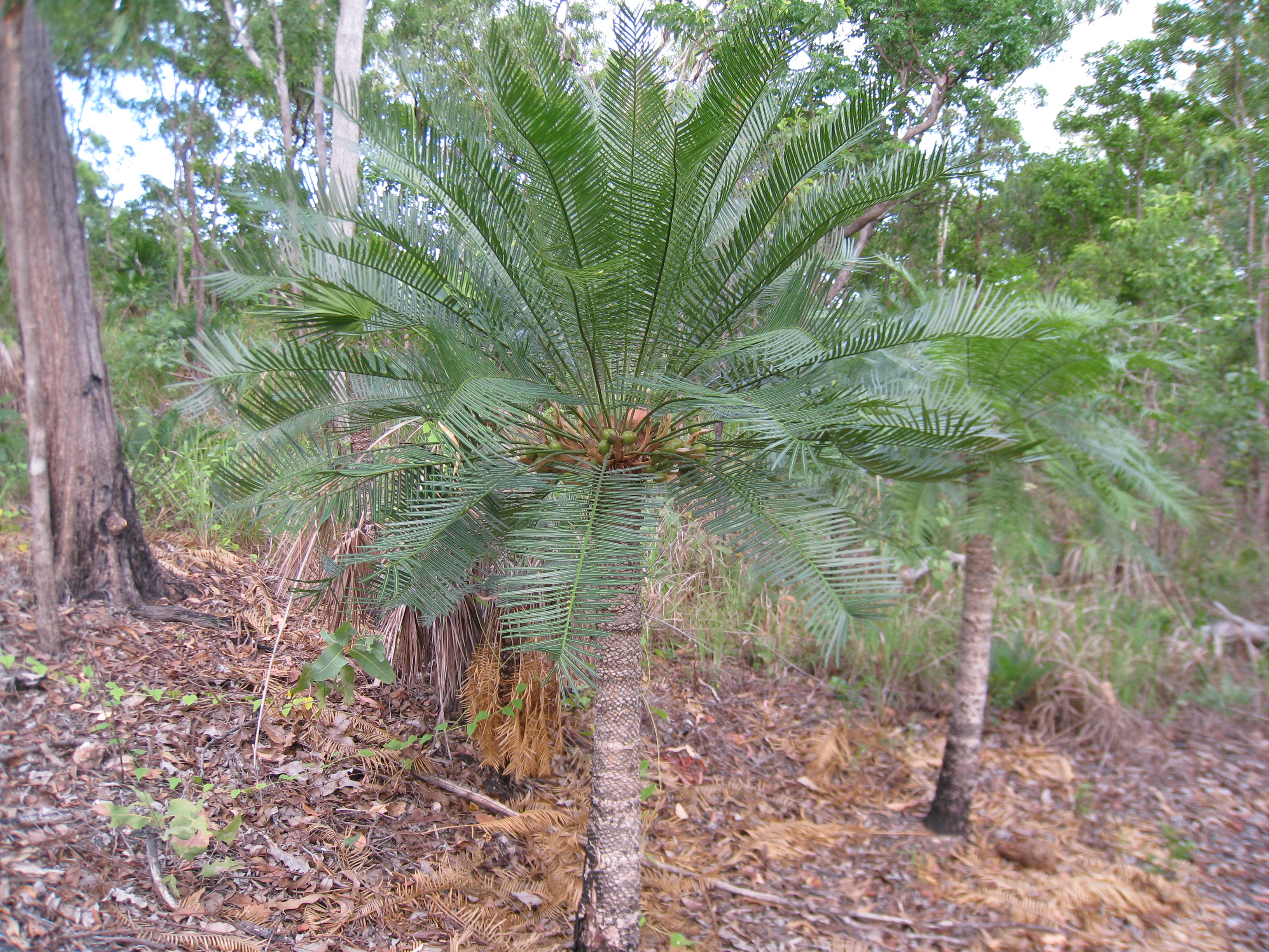 Cycas armstrongii is a locally common cycad. Charles Darwin National Park, Darwin NT Australia, November 2010.